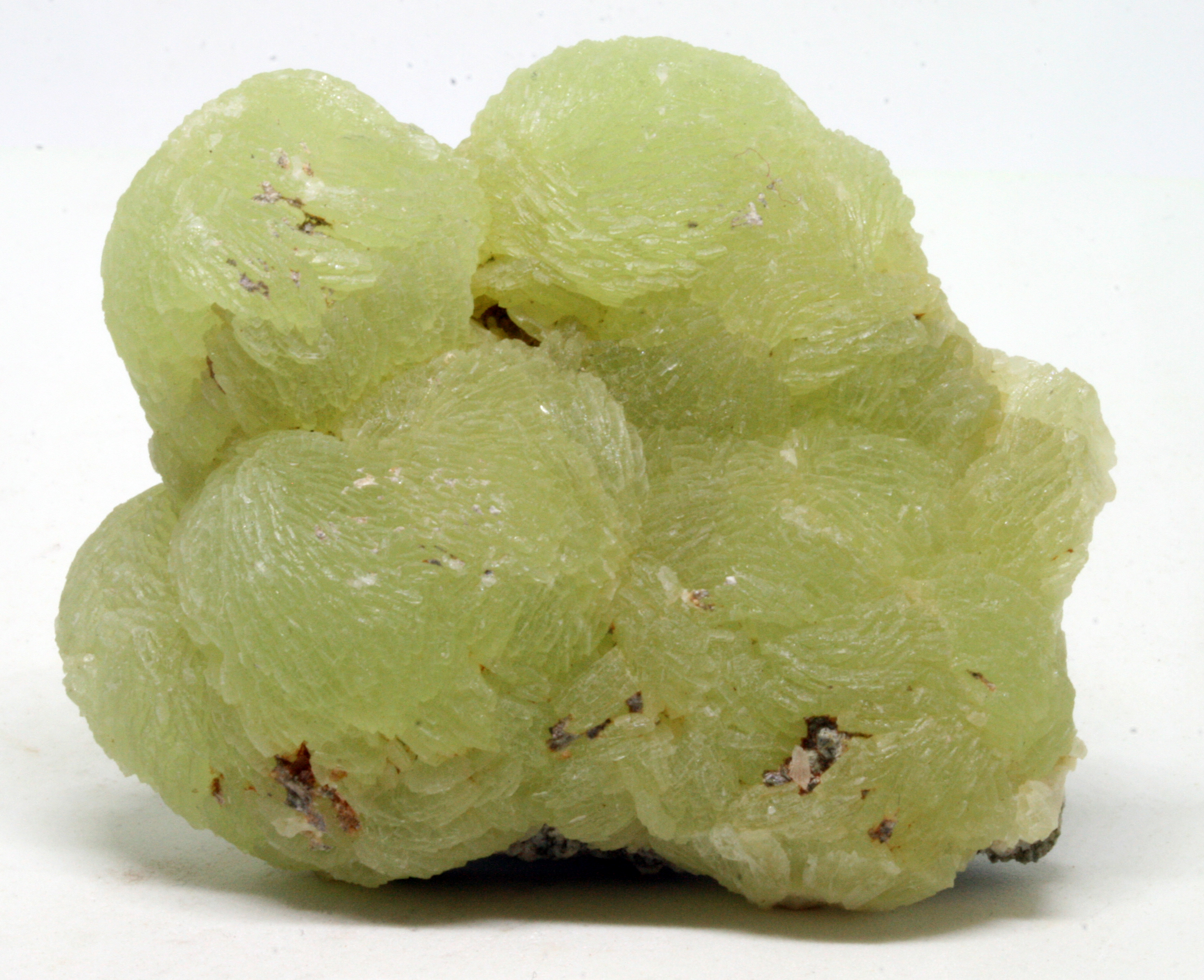 Globular aggregates of prehnite crystals. Minera I quarry, Lebrija (Seville) Spain